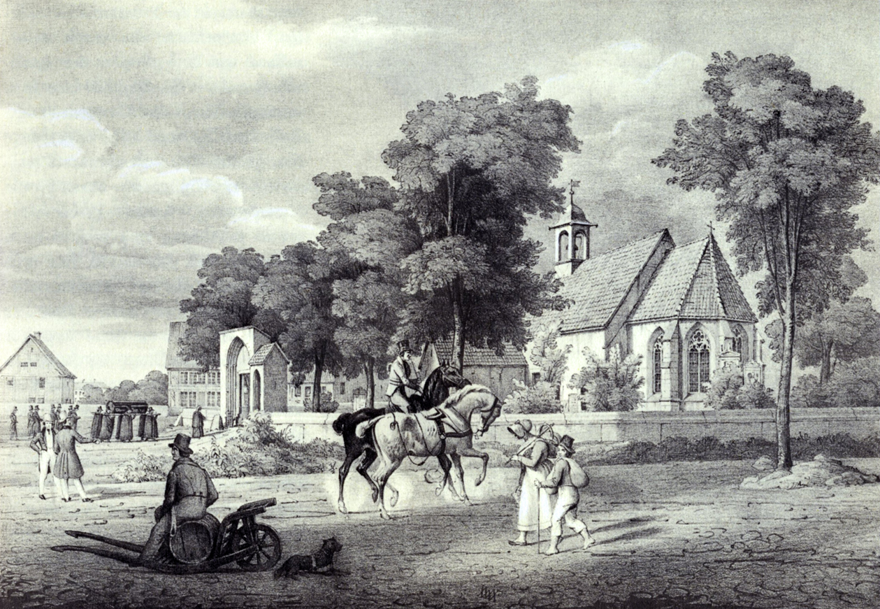 The churchyard St. Nicolai in Hanover 1826 by Rudolf Wiegmann. Lithography: „Der Nicolaifriedhof 1826 Lithographie von Rudolf Wiegmann.jpg“. 18,7 x 26,9 cm, signed: MW = R. Wiegmann“.